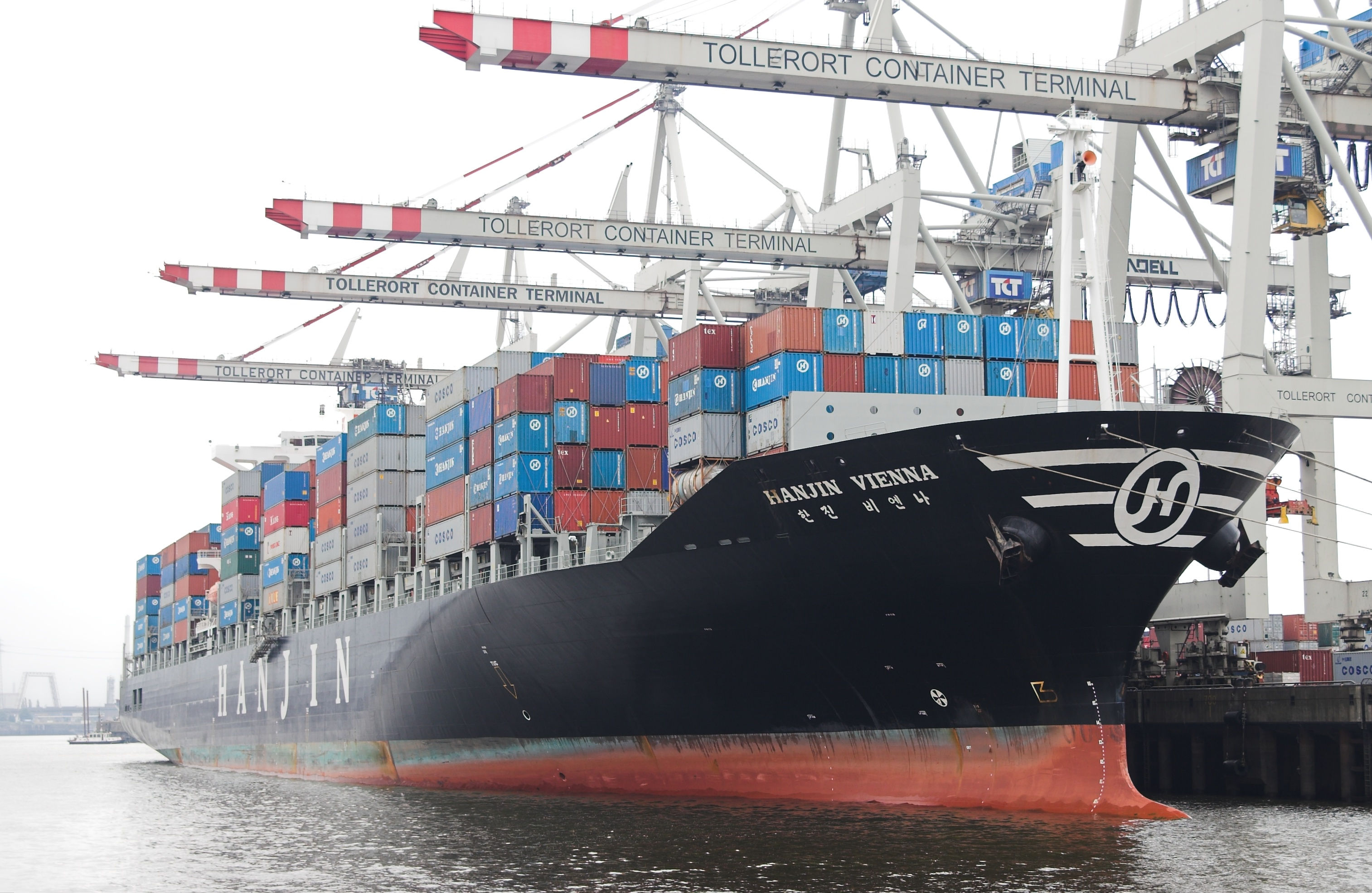 Container vessel Hanjin Vienna (5752 TEU) in Hamburg, Germany. IMO Number: 9215634 MMSI Number: 211378110 Callsign: DIBZ Length: 282 m Beam: 40 m